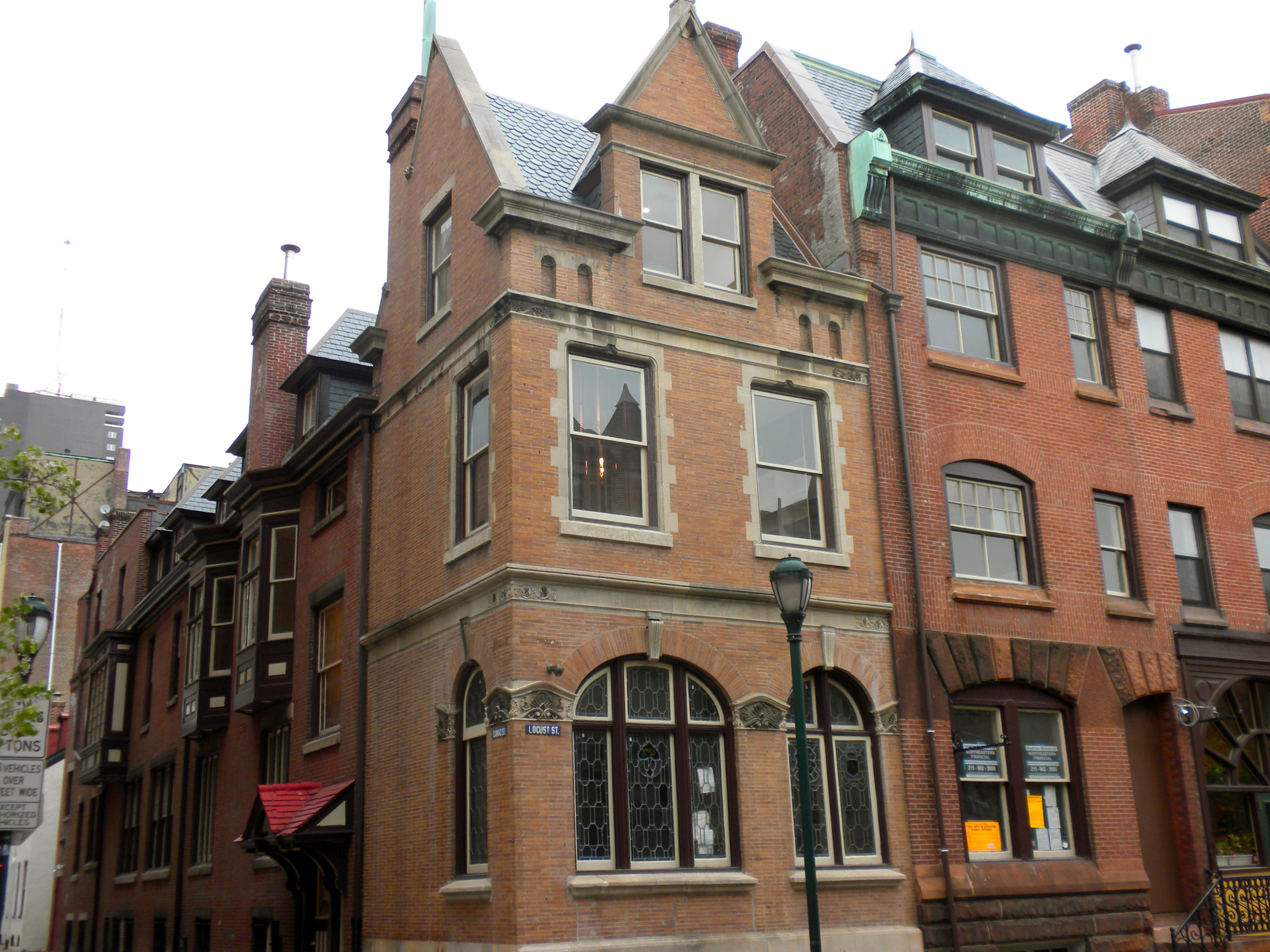 Princeton Club in Philadelphia on NRHP since December 4, 1980. At 1221–1223 Locust Street in Washington Square West neighborhood. Frank Furness, architect of 1223 Locust (1890) (on the left). Lindley Johnson, architect of 1221 Locust (1891) (on the far right)